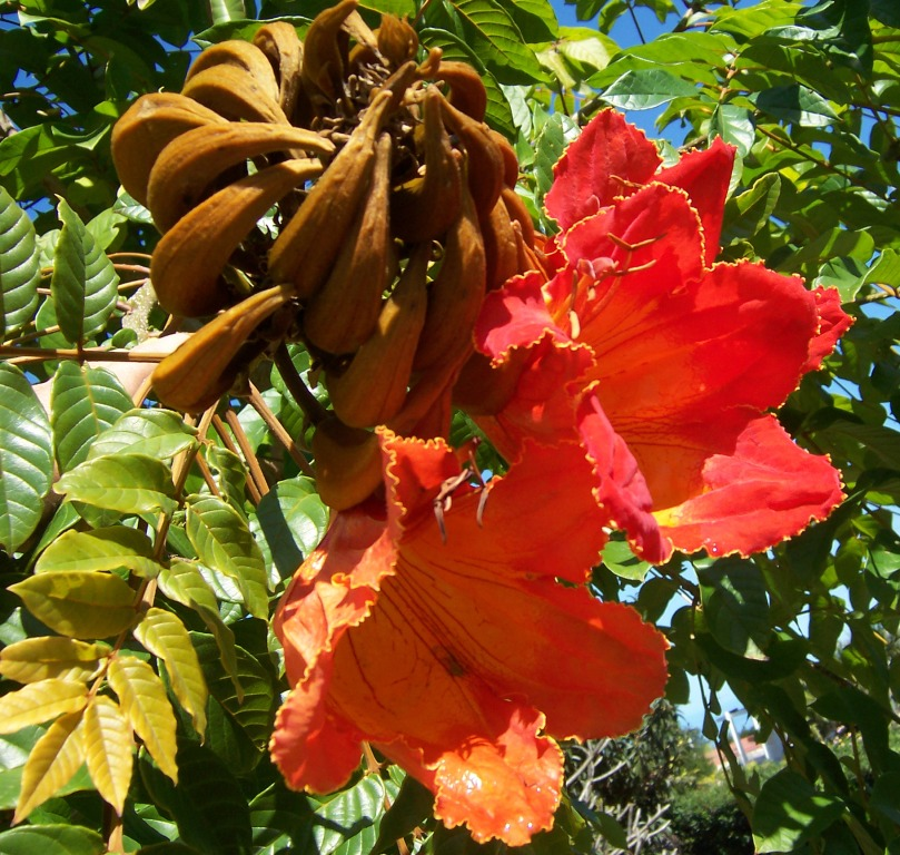 African tulip tree (Spathodea campanulata) - inflorescence, Réunion island